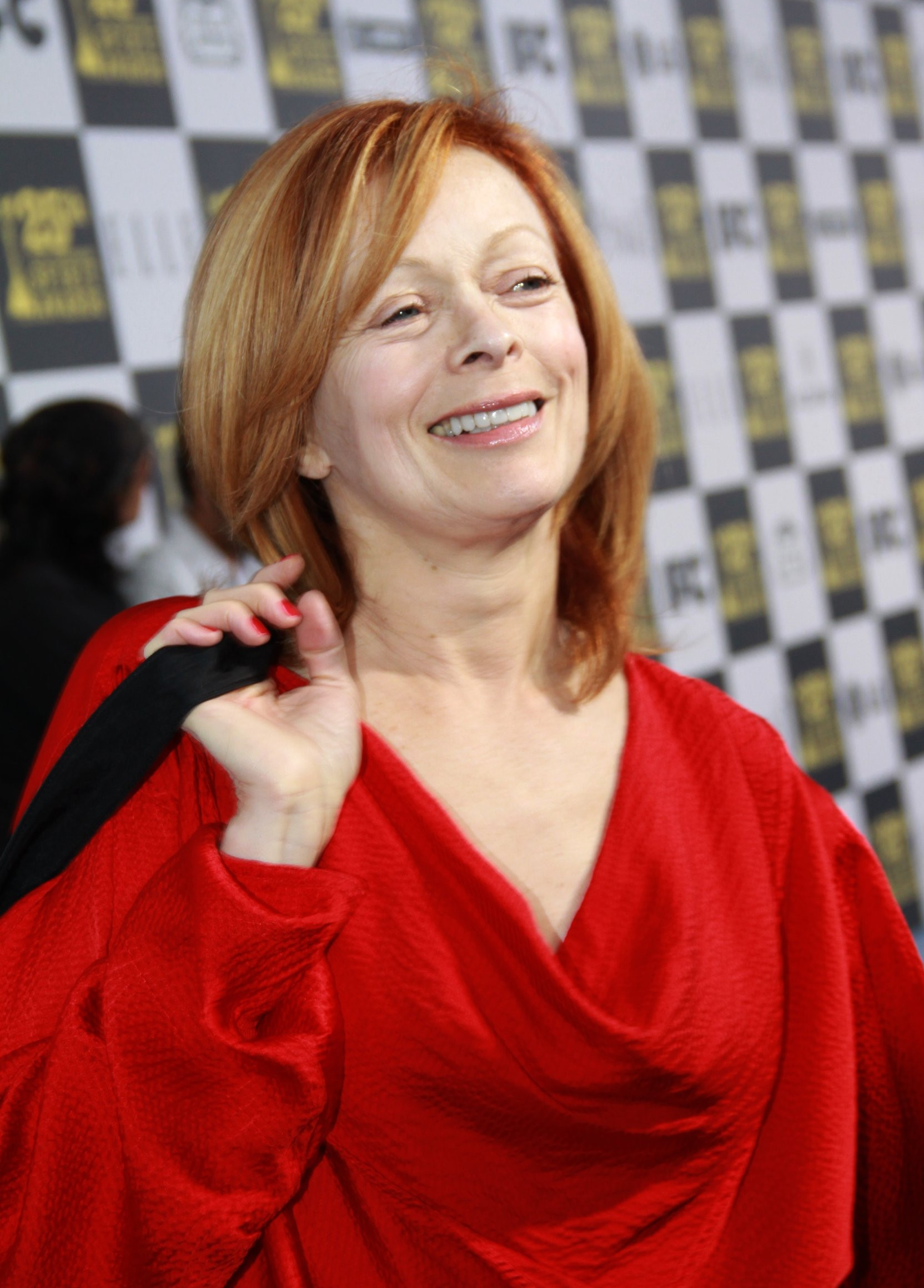 Frances Fisher at the Independent Spirit Awards in Los Angeles on March 5th, 2010.